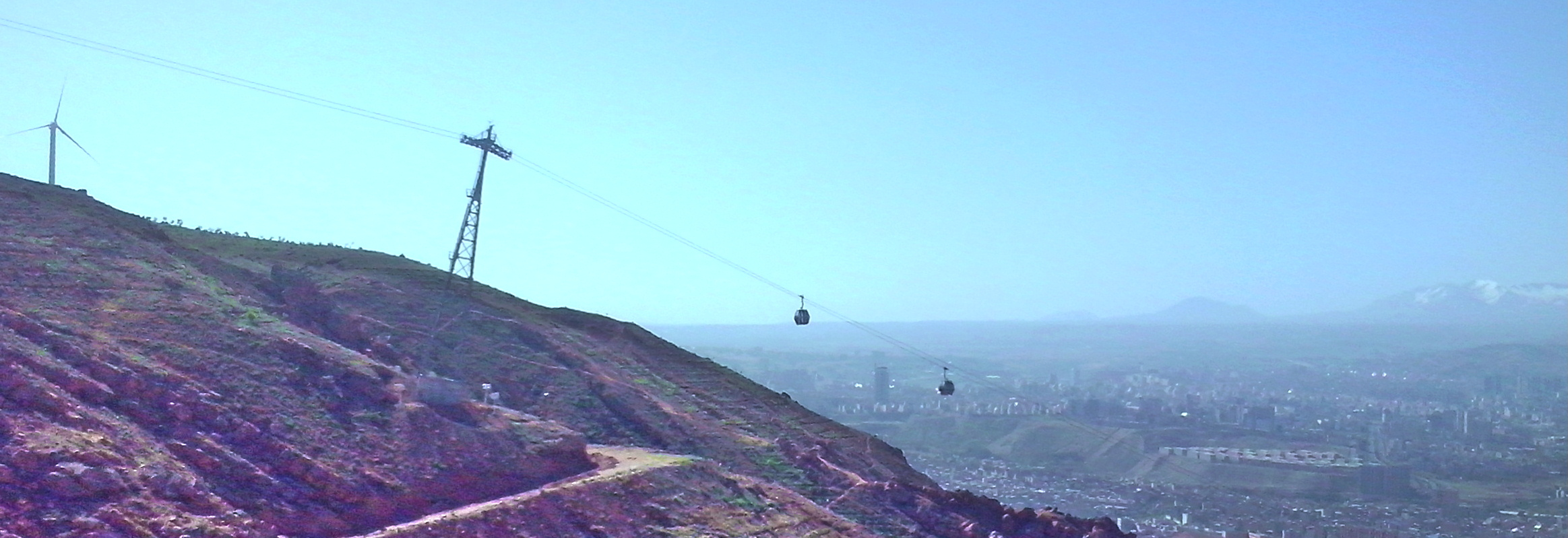 Eynali Cable Car